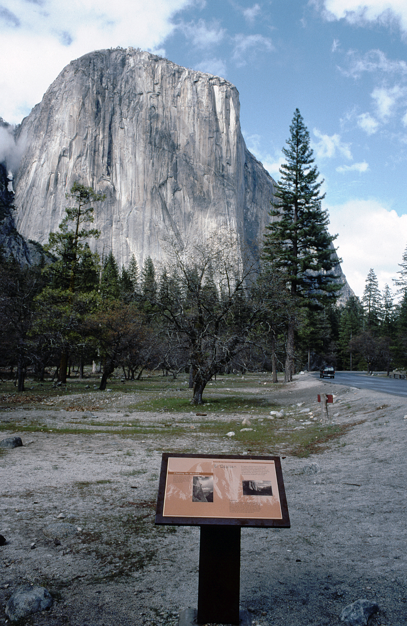 Yosemite National Park, El Capitan